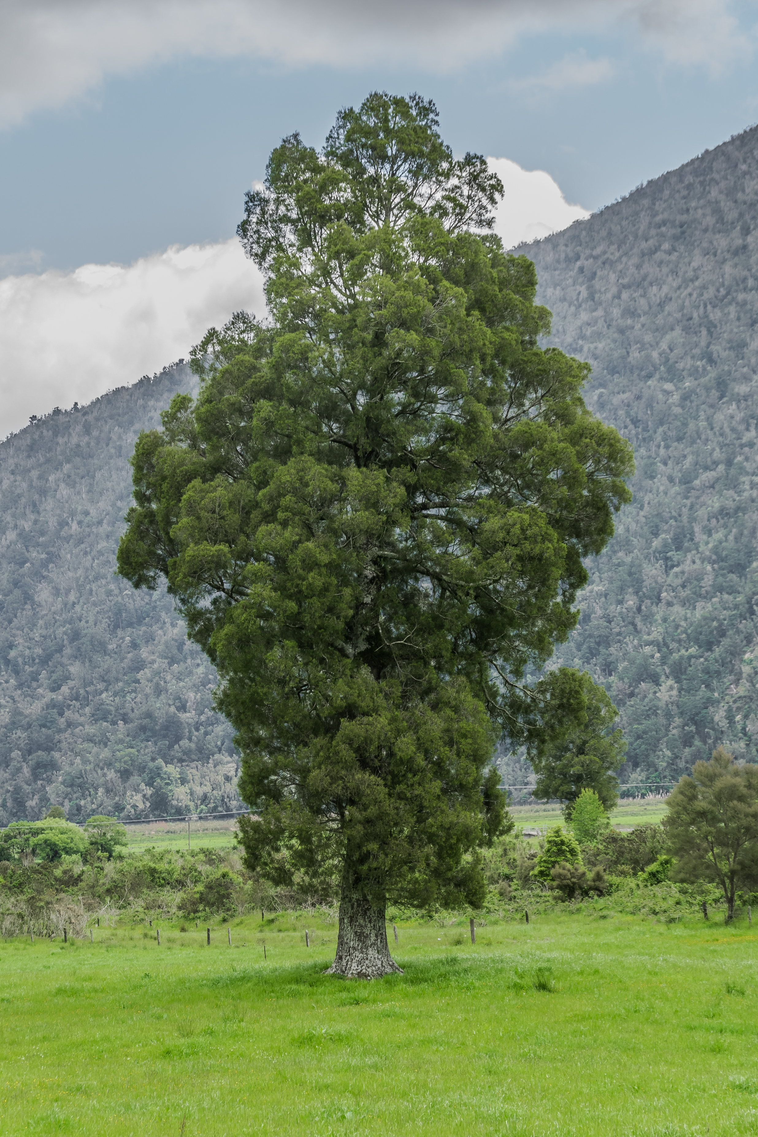 Libocedrus bidwillii near Inchbonnie in West Coast Region in the South Region, New Zealand